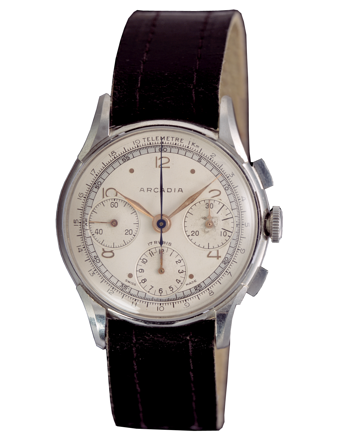 Arcadia watch c1960